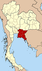 Map of Thailand highlighting the extent of the Roman Catholic diocese of Chanthaburi.